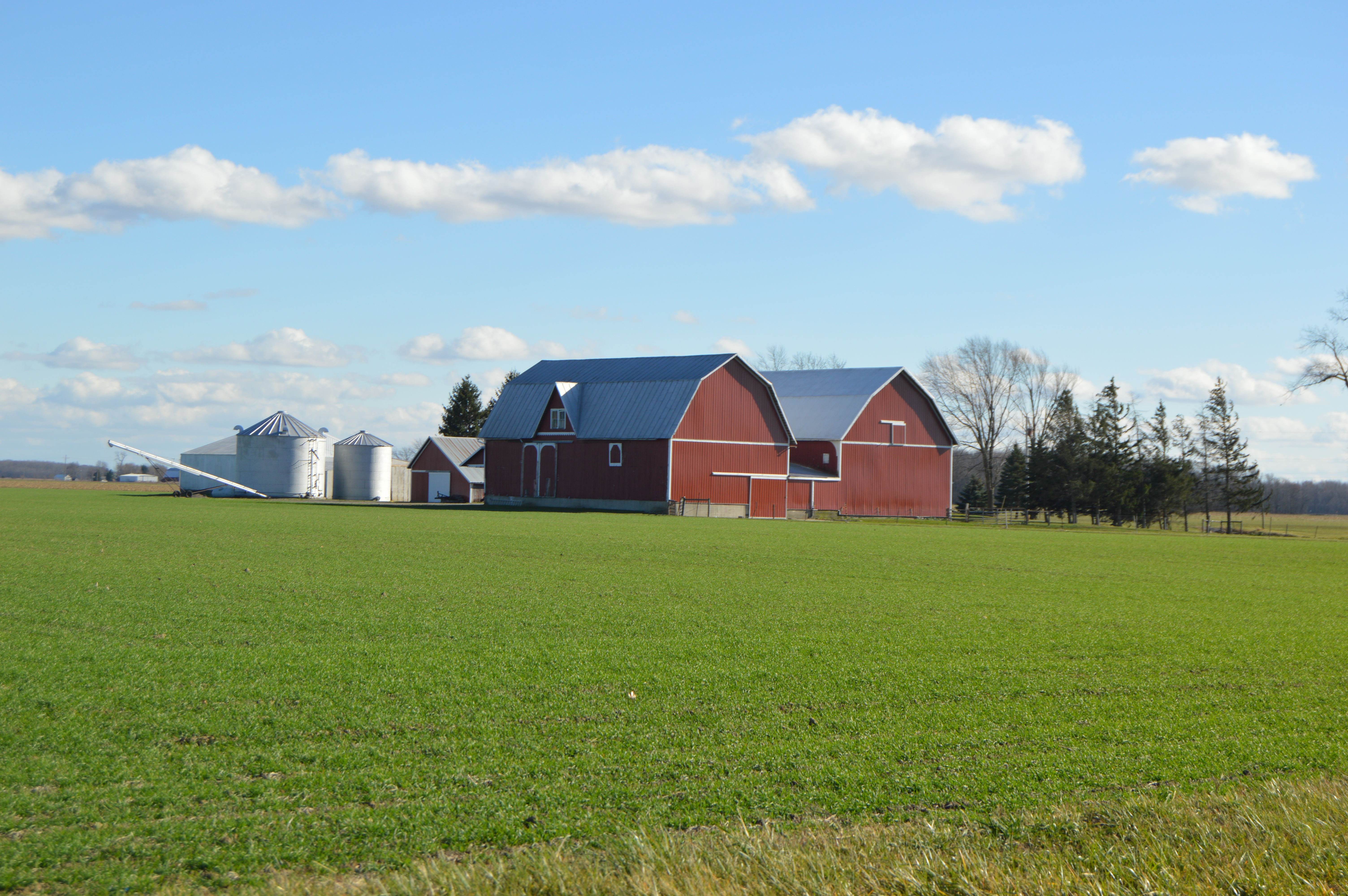 A farmstead on the eastern side of Walnut Grove Road south of Ridgeville Corners in far northeastern Adams Township, Defiance County, Ohio, United States.